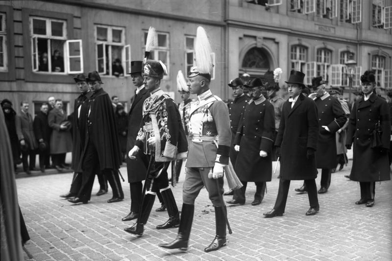 The ceremonial burial of the late Danish Queen Mother. Prince Sigismund of Prussia Prince Christian (in black Uniform) right next to him Prince Christian of Schaumburg-Lippe (in grey Uniform).